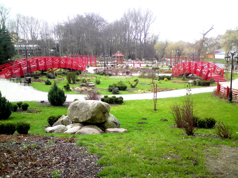 Japanese garden in Gryfice (Poland)